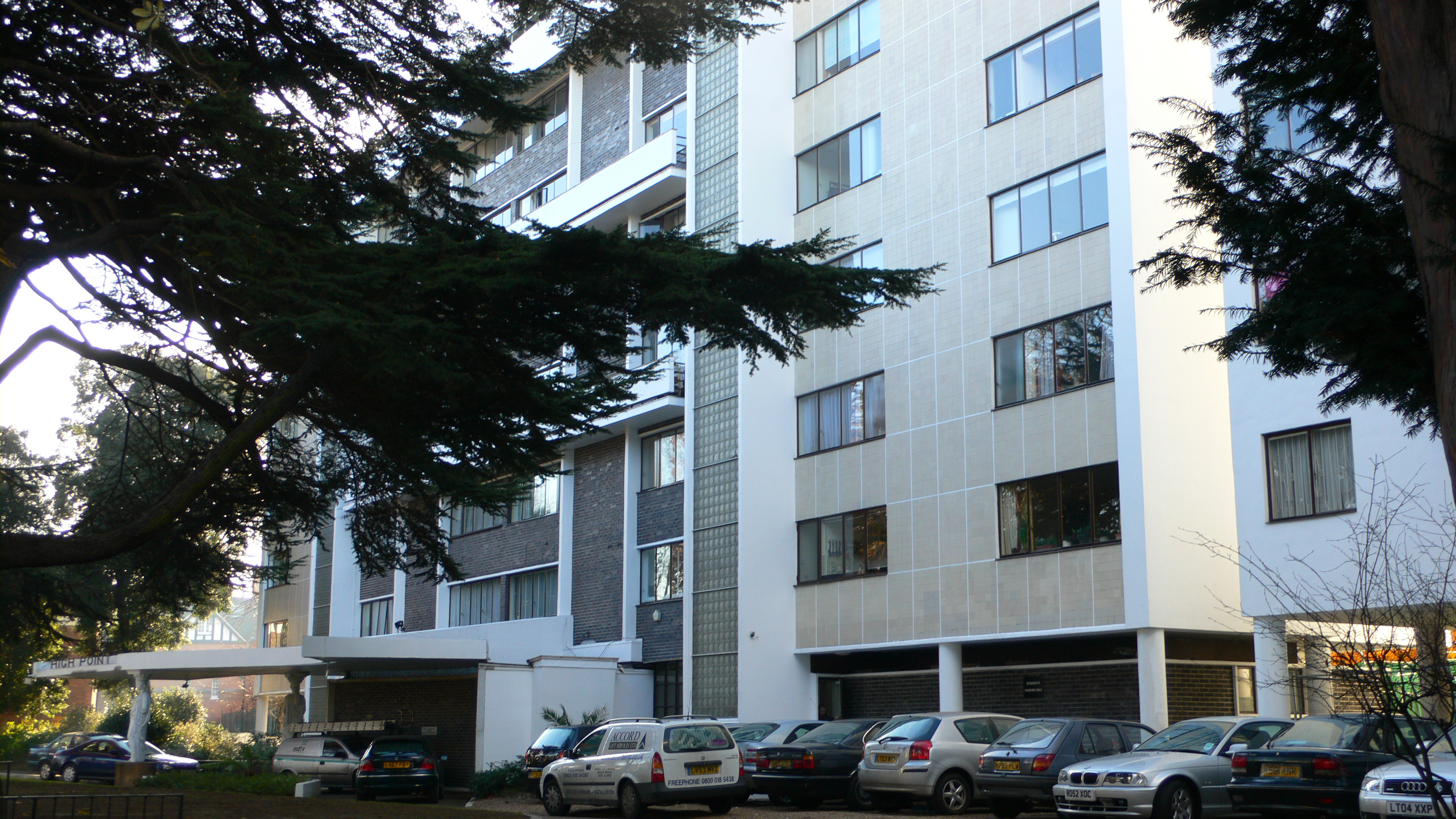 Lubetkin, Highpoint I, Highgate, London